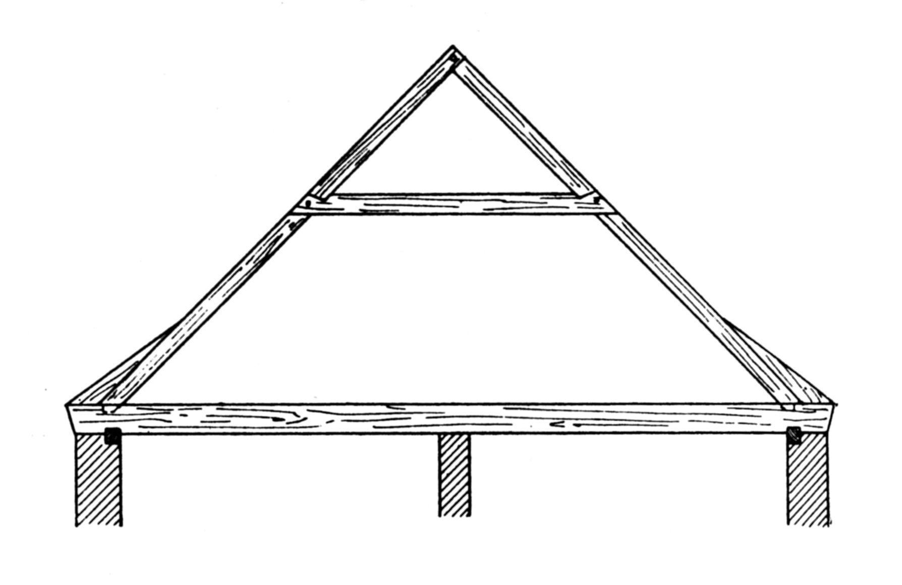 Roof truss with collar beam. Böhm, Theodor: Handbuch der Holzkonstruktionen, Dresden 1911, p. 302